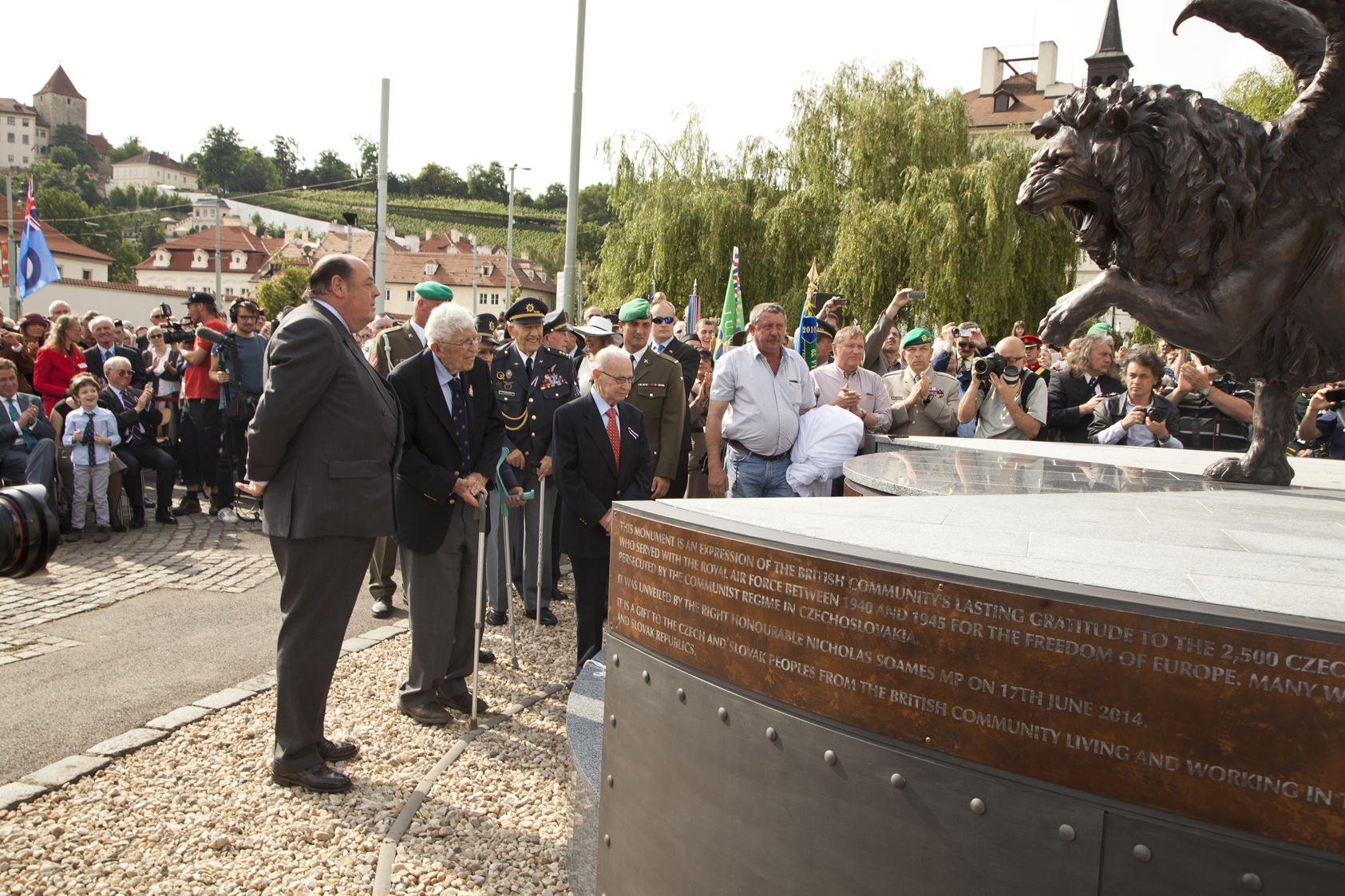 The ceremonial unveiling of Winged lion (dedicated to Royal Air Force) in Prague Klarov (Czech republic) on June 17, 2014